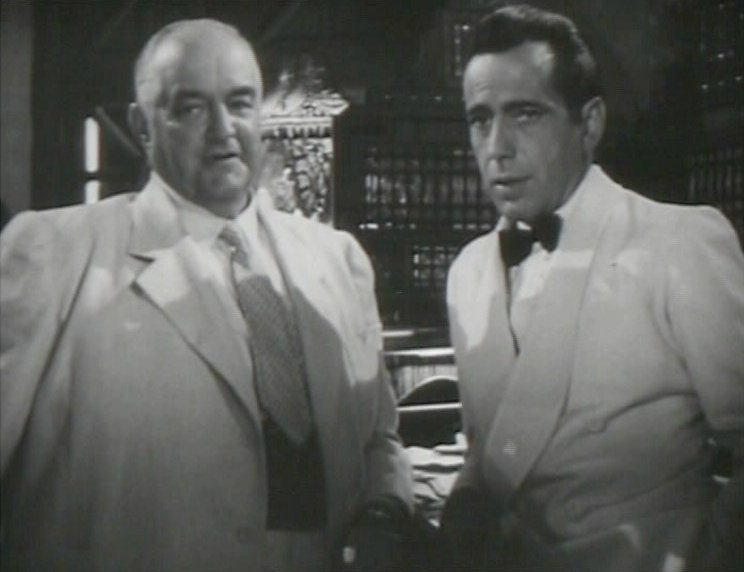 This screenshot shows Sydney Greenstreet and Humphrey Bogart in a discussion about whether Sam (Dooley Wilson) will come to work for Greenstreet.